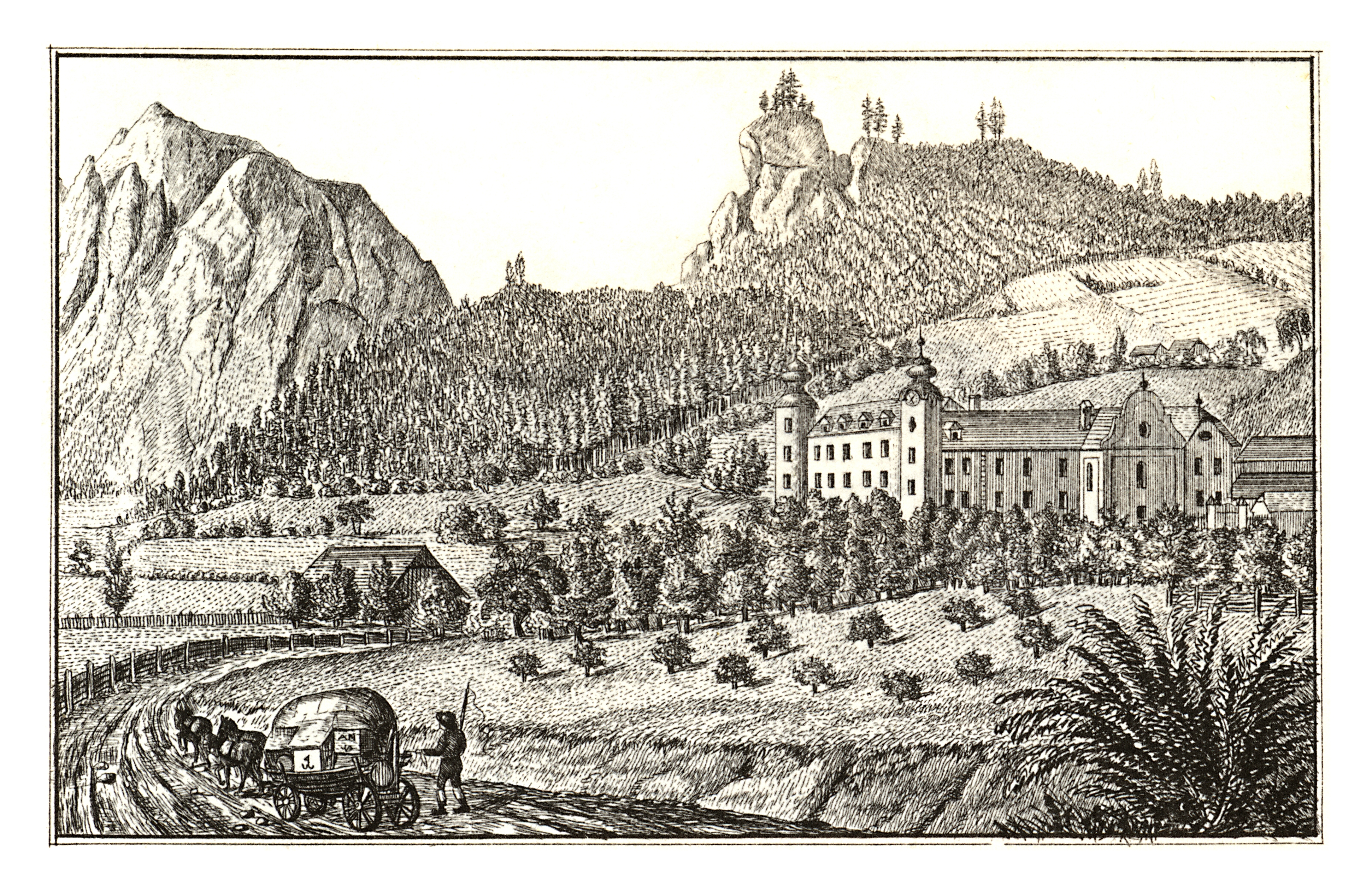 J. F. Kaiser - lithographirte Ansichten der Steyermärkischen Städte, Märkte und Schlösser, Graz 1824-1833 Joseph Franz Kaiser (1786–1859) Alternative names J. F. KaiserDescriptionAustrian printer and editorDate of birth/death 11 March 1786 19 September 1859Location of birth/death Graz (Styria) GrazAuthority control : Q1499963 VIAF: 30629353 ISNI: 0000 0000 3083 0153 LCCN: n87141671 GND: 129880159 NLP: A24960305 WorldCat creator QS:P170,Q1499963 . Scanprojekt Community Projektbudget 2012 This scan or this PDF-file was created within the GLAM-project Bookscanning, supported by Wikimedia Germany and Wikimedia Austria as a part of the community-project to capture books, documents and pictures which are not eligible to copyright or for which the copyright has expired. This document describes or depicts an object which is located in Austria today. Send requests for uncompressed scans to Hubertl. This work is in the public domain in its country of origin and other countries and areas where the copyright term is the author's life plus 100 years or less. You must also include a United States public domain tag to indicate why this work is in the public domain in the United States. This file has been identified as being free of known restrictions under copyright law, including all related and neighboring rights.